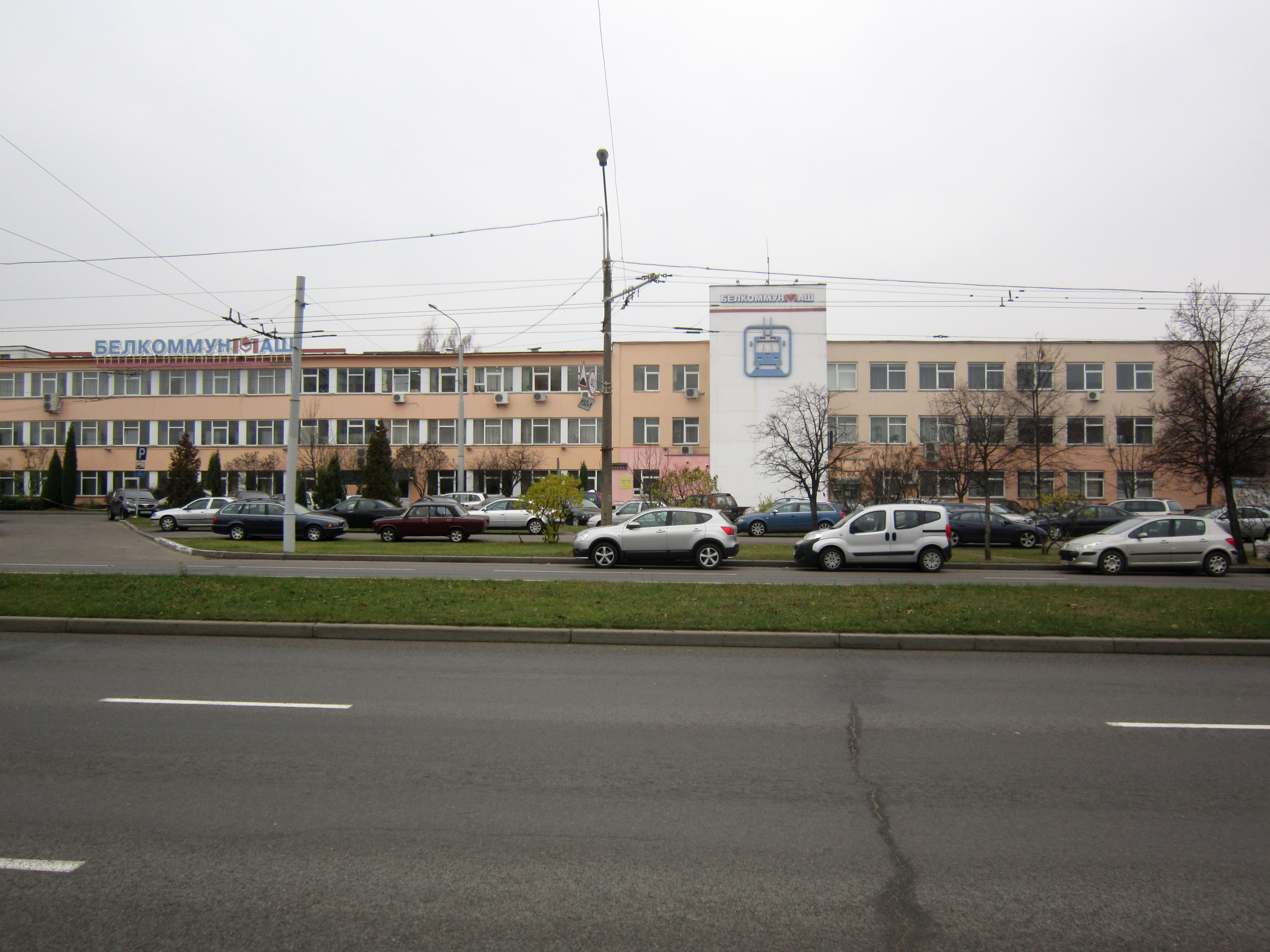 "Belkommunmash" plant in Minsk